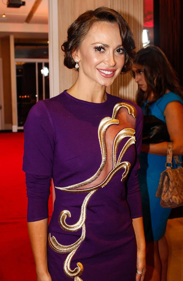 Neon Tommy | Ashley Velez